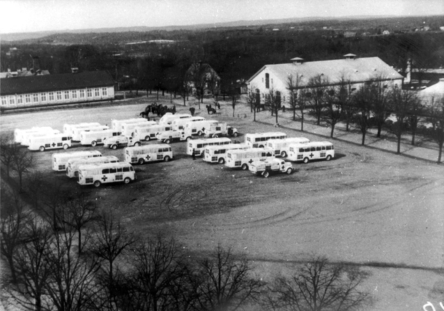 Hässleholm, Sweden; a Red Cross camp.